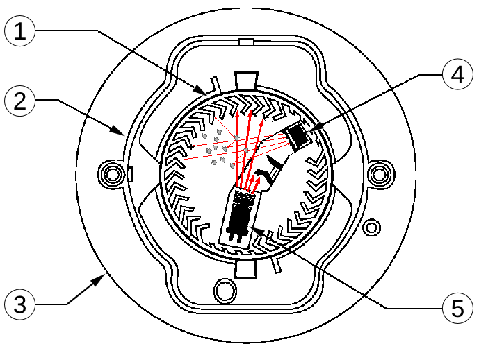 Smoke detector 1: Optical chamber with labyrinth 2: Cover 3: Case moulding 4: Photo diode 5: Infrared LED